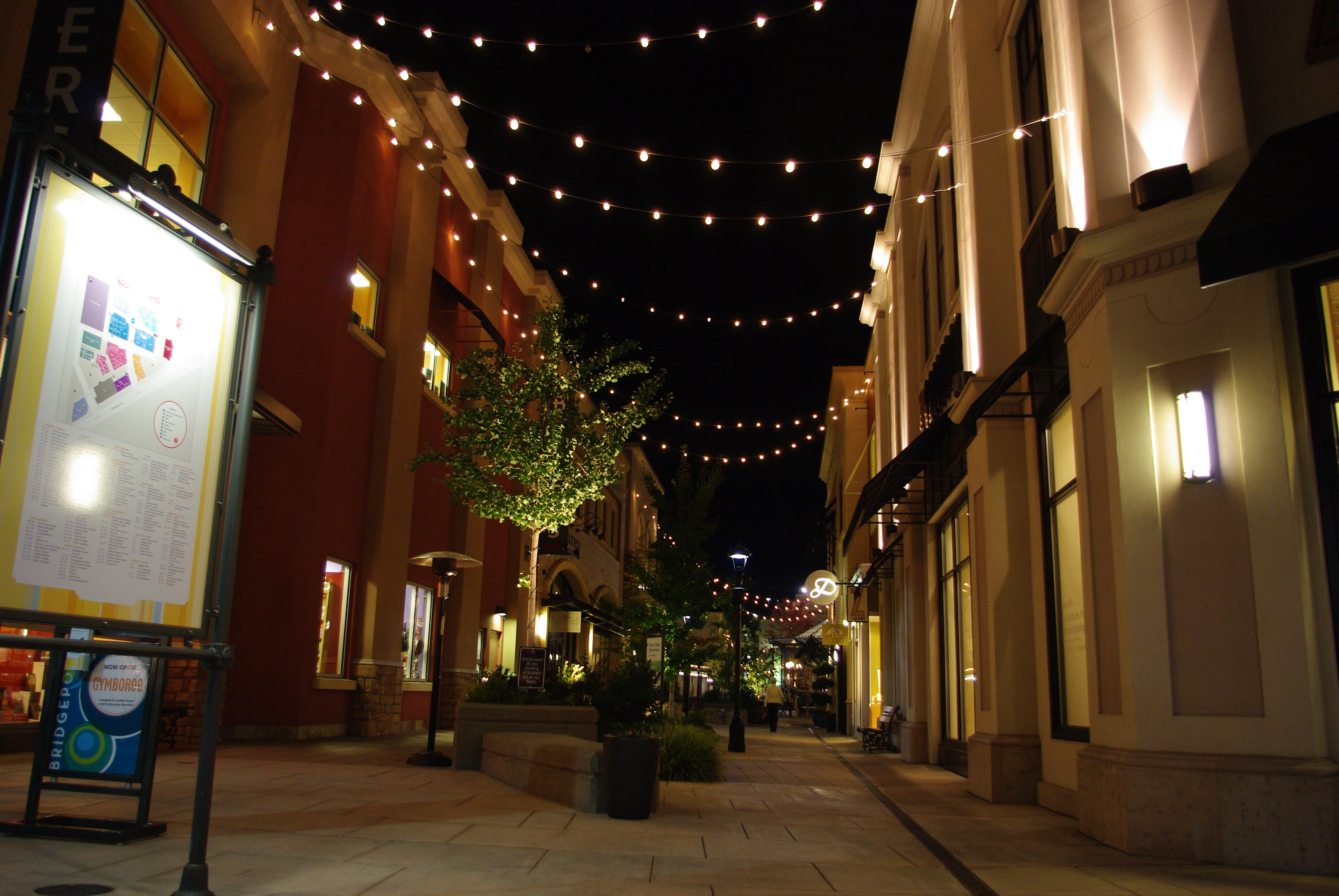 Bridgeport Village (Oregon), USA